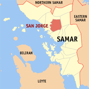 Map of Samar showing the location of San Jorge